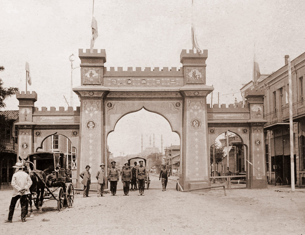 A Triumphal arch in Odrin, raised to celebrate the capture of the city by Bulgarian forces, 1913